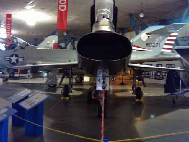 North American F-100 Super Sabre, D-model nose shot, oval intake